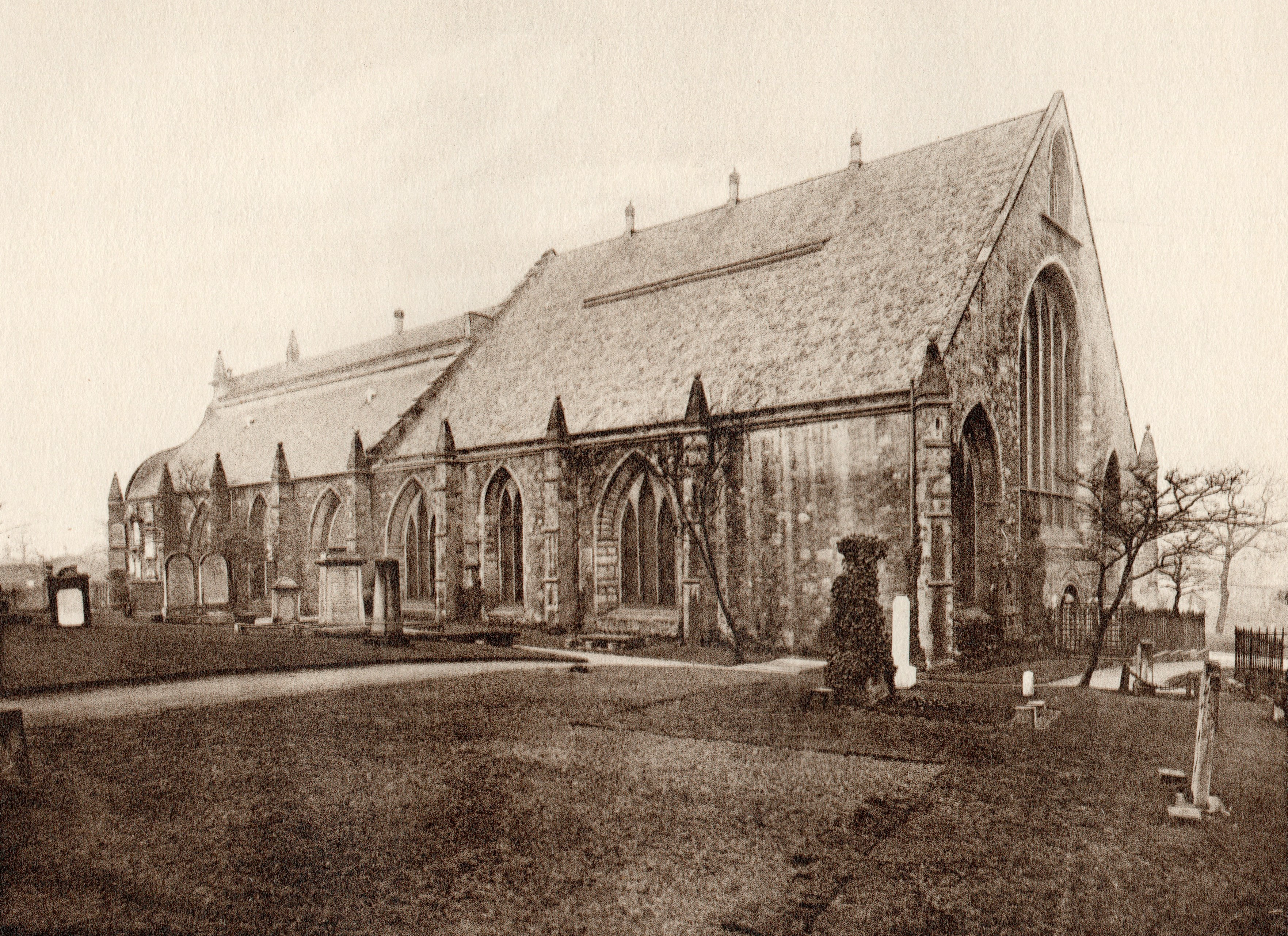 A photograph of the south side of Greyfriars Kirk, Edinburgh. This shows the appearance of the church after the completion of a restoration in 1857 by David Cousin and before another restoration of 1932-1938 by Henry F. Kerr. This shows the steeply pitched roof over Old Greyfriars: this was replaced with a roof closer to that of the western half during the 1930s.